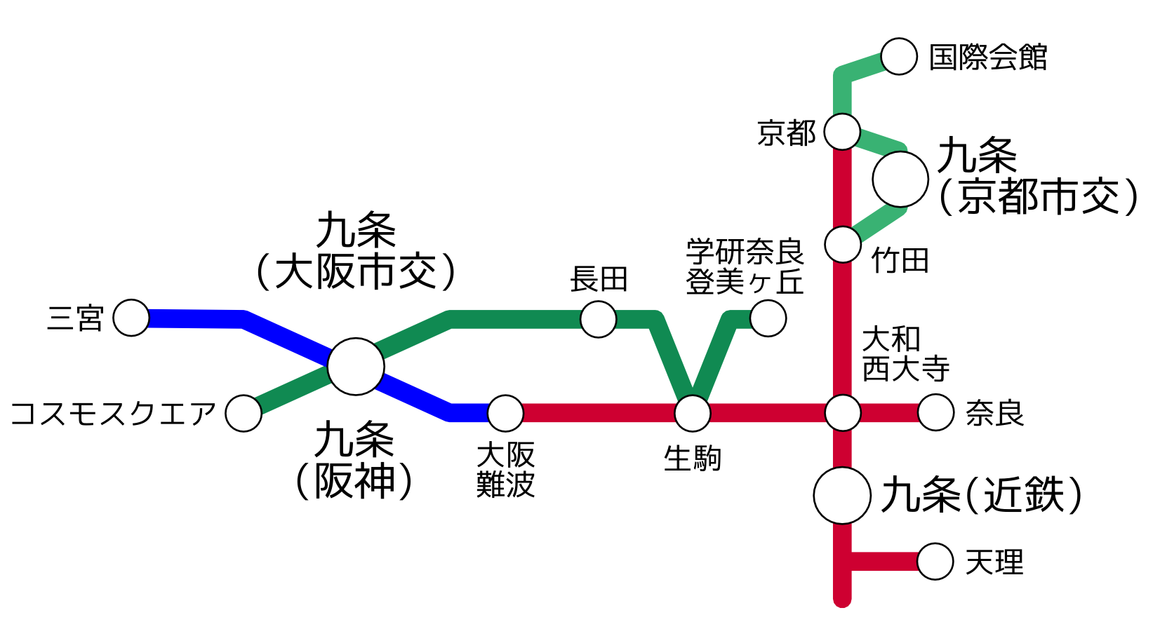 This map presents the location of Kujo Station of Kintetsu, Osaka City Subway, Kyoto City Subway and Hanshin.